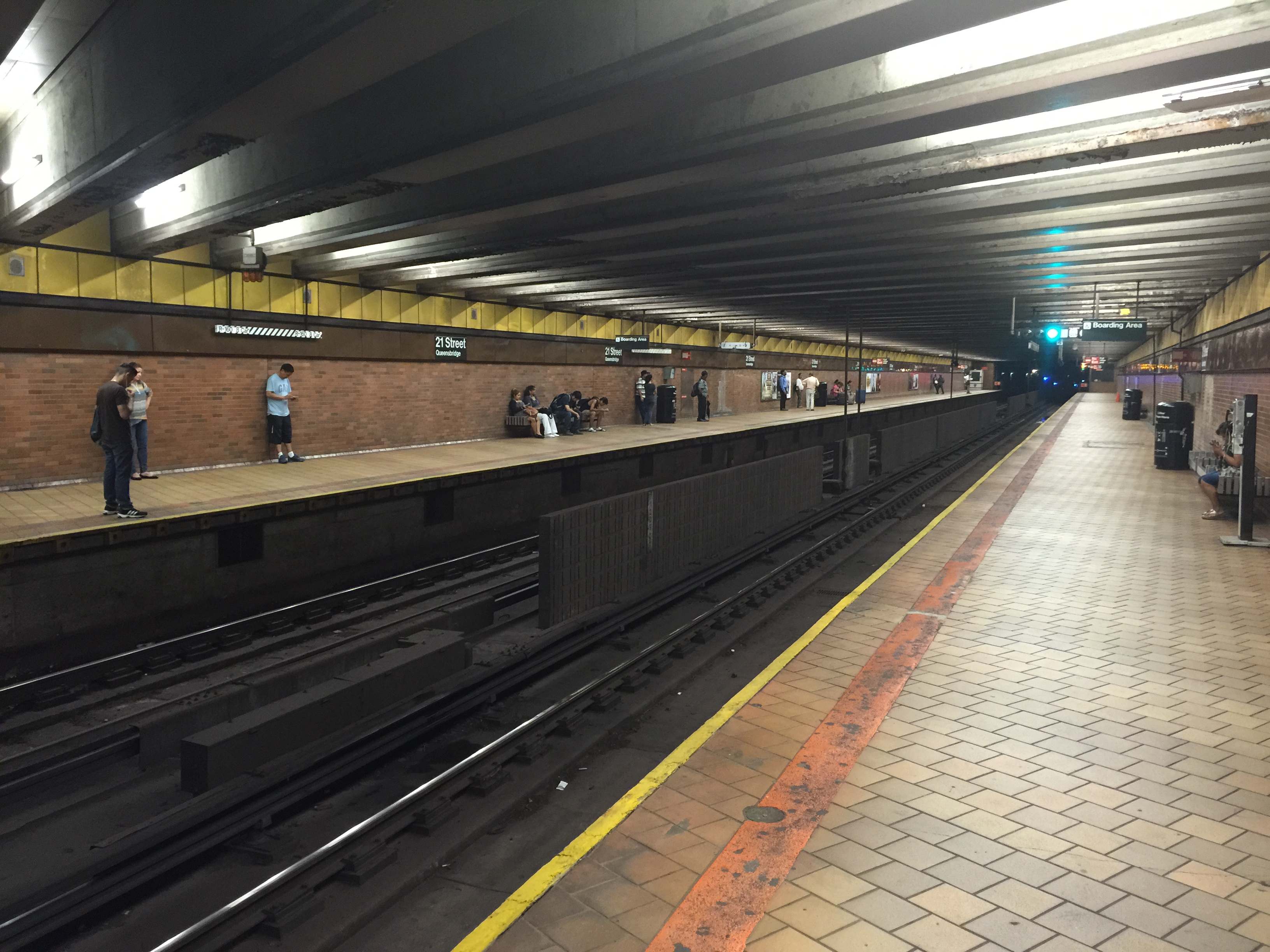 The western end of the station